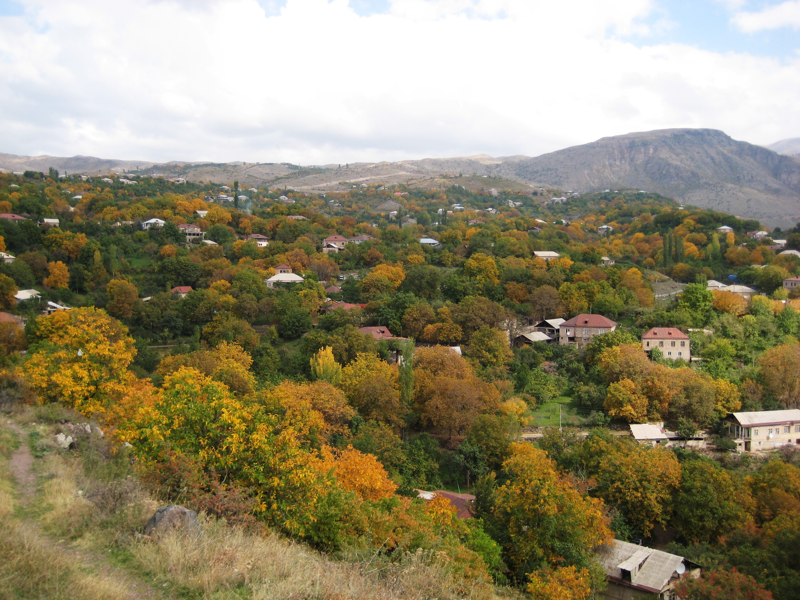 The town of Goght.